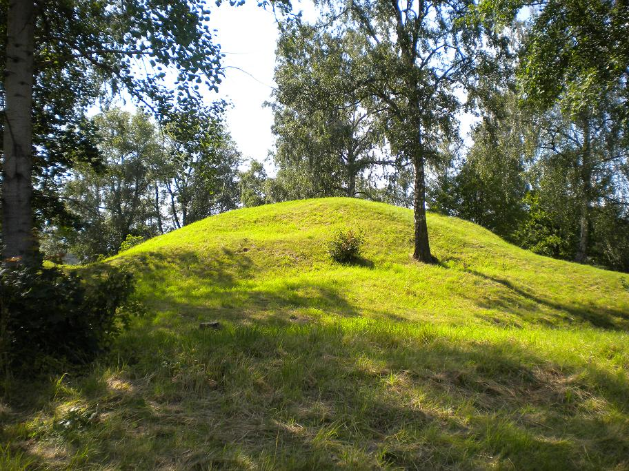 Tumulus called the King’s Mound Kungshögen and King Agni’s Mound Kung Agnes hög near the local train stationPlace: Sollentuna, Sweden